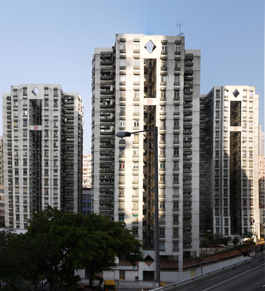 June Garden elevations